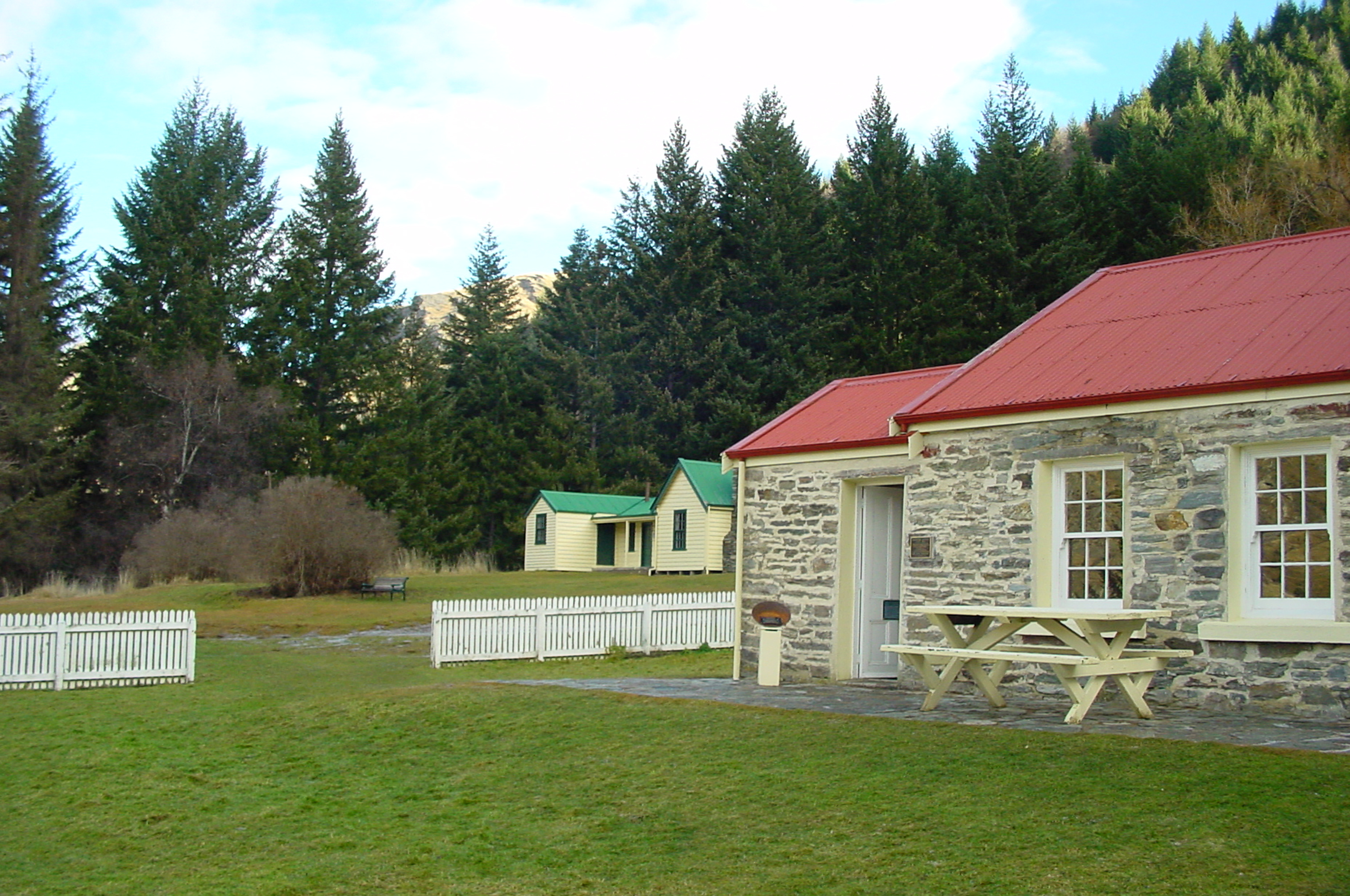 At Skippers Point, only the School House (in the front) and the Mount Aurum Homestead (in the back, with the green roof) are visible. The buildings are maintained by the Department of Conservation.